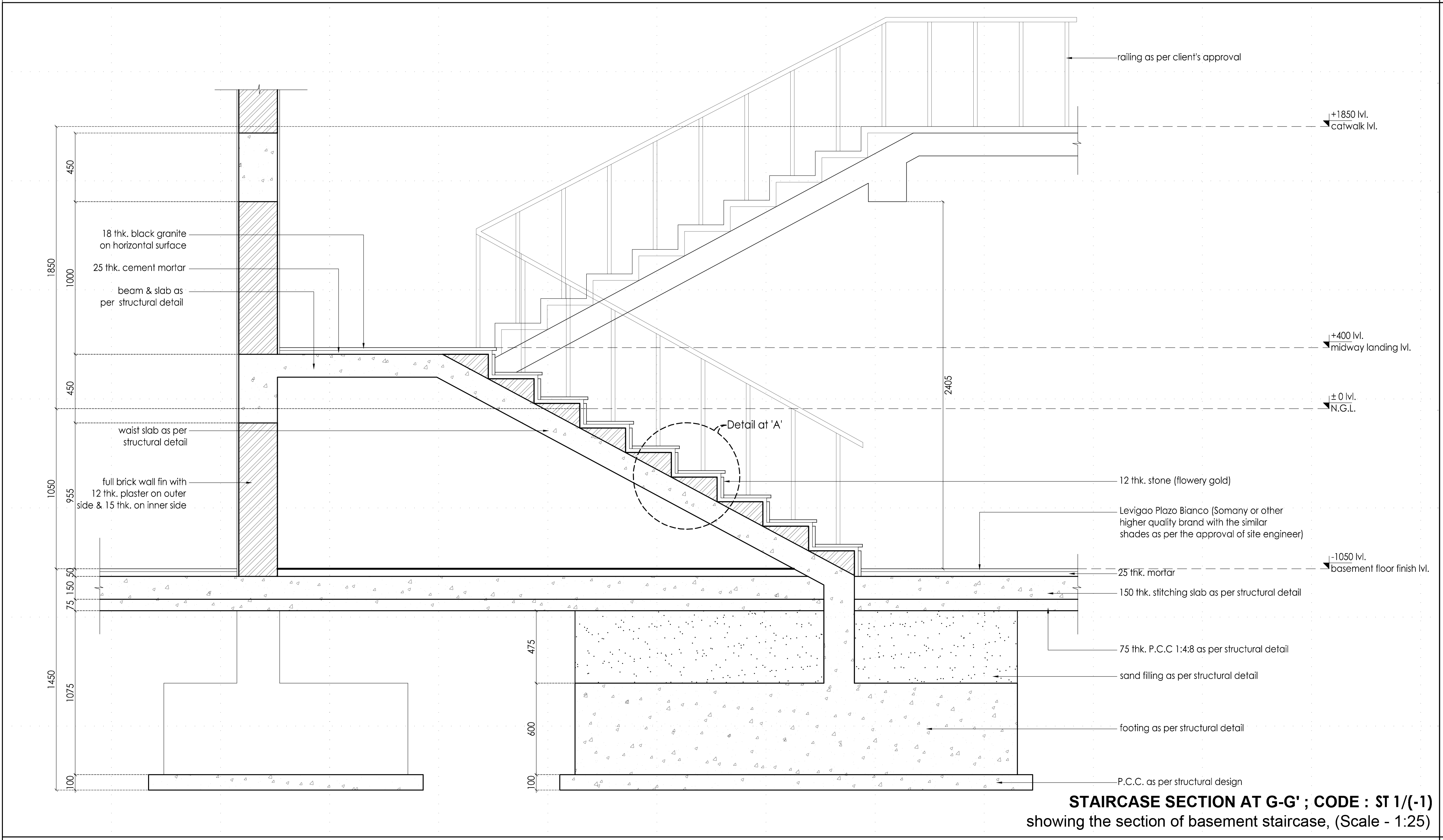 A detail of staircase I drafted during a project in AutoCAD.